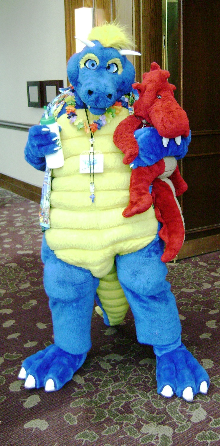 Cornwall Dragon at Anthrocon 2008